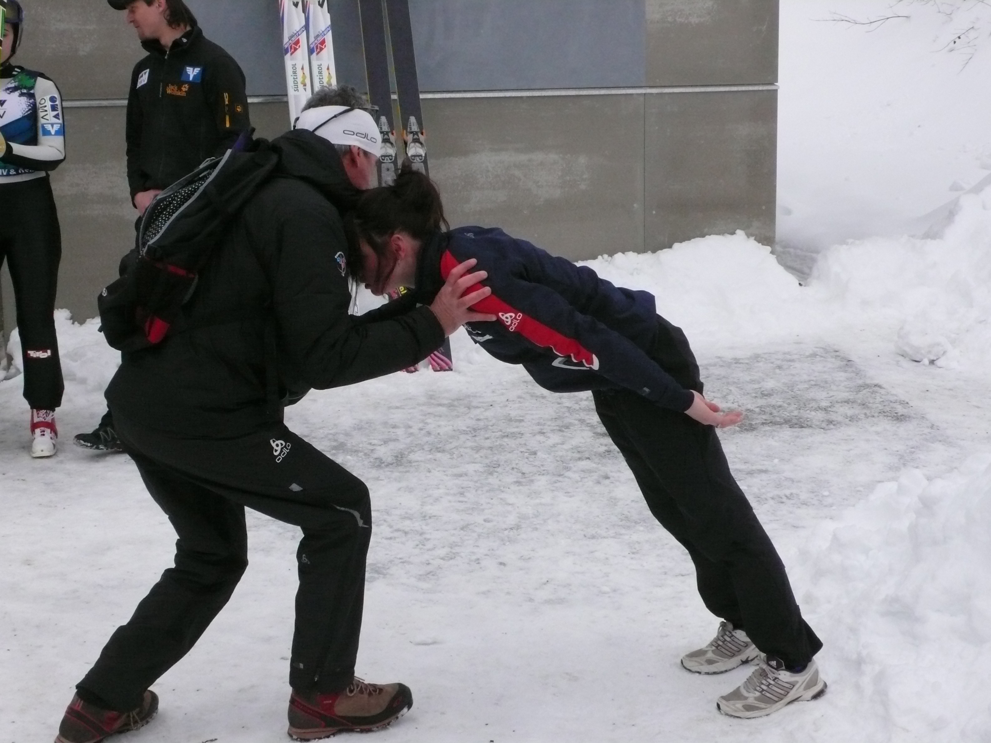 Caroline Espiau with her coach, warm-up before to go to jump.